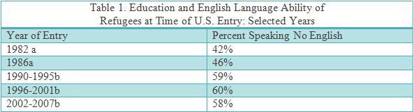 U.S. Refugee English-language